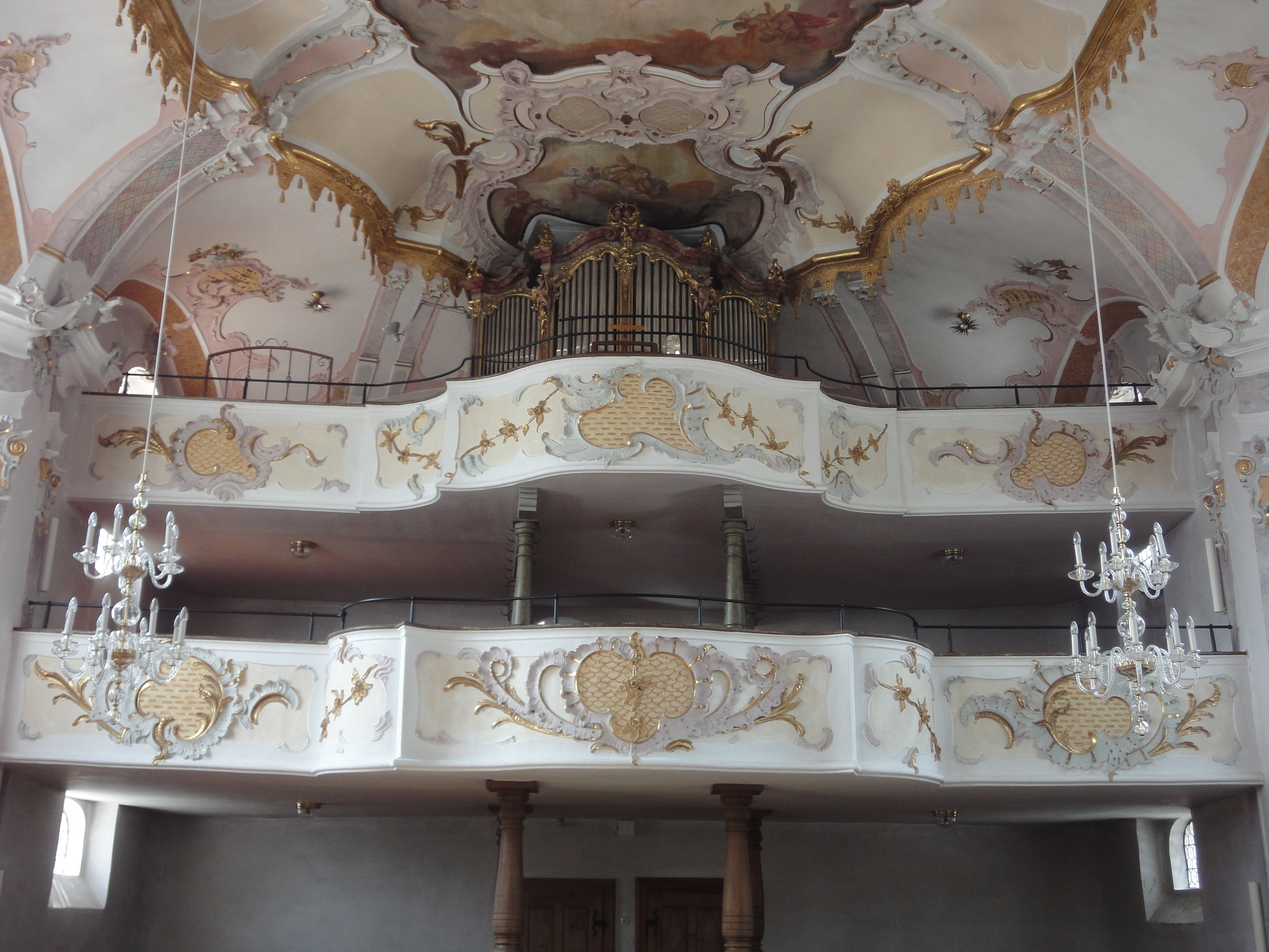 Organ of the Church in Meitingen-Herbertshofen, Bavaria